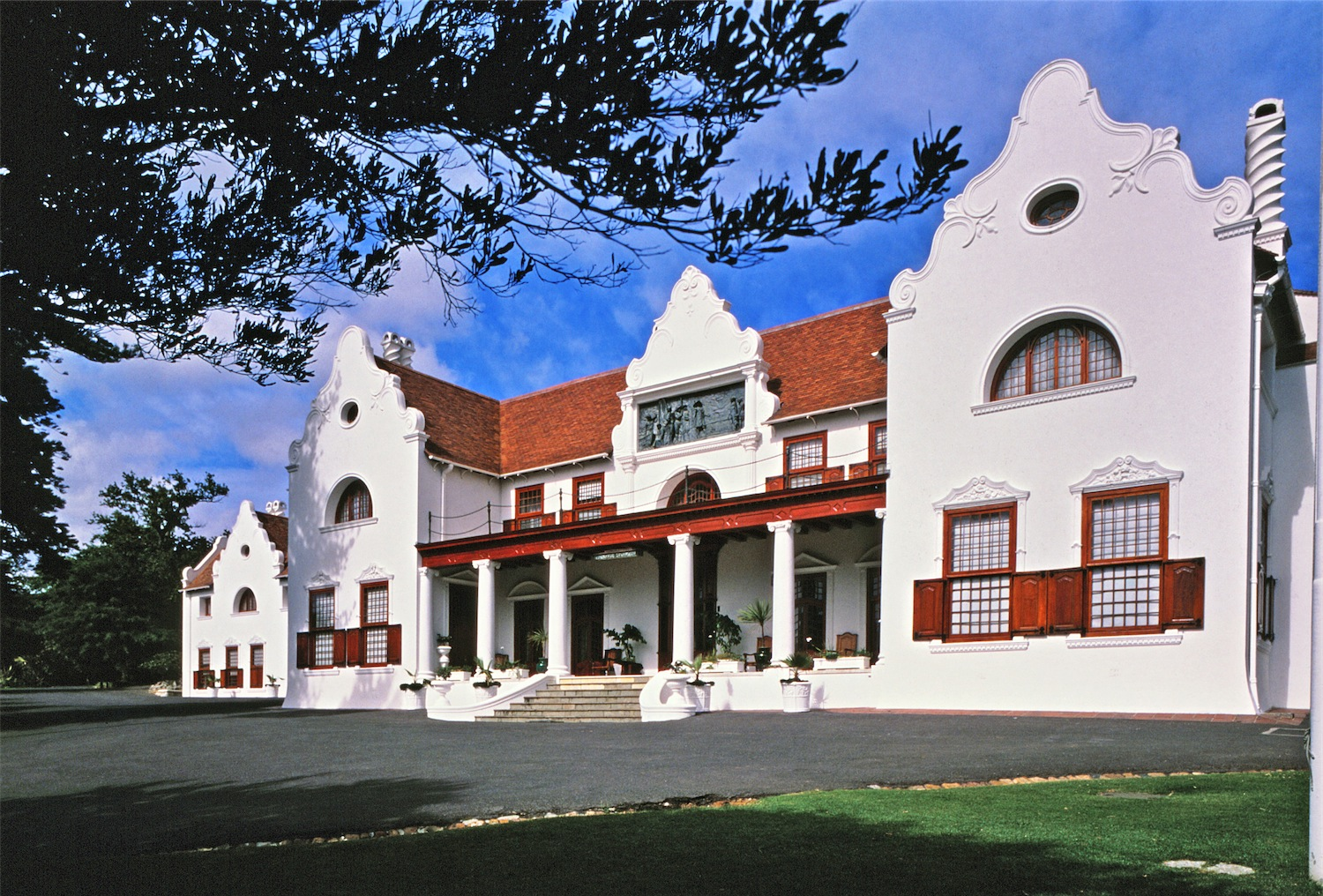 This media shows a South African Protected Site with SAHRA file reference 9/2/111/0072/001.